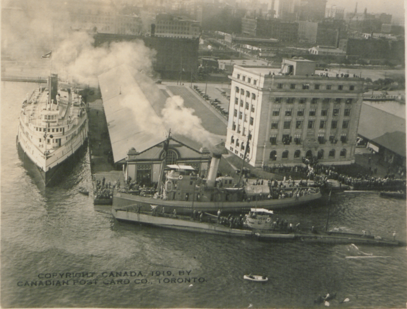 Original caption: "German Submarine, Toronto, from an Aeroplane."